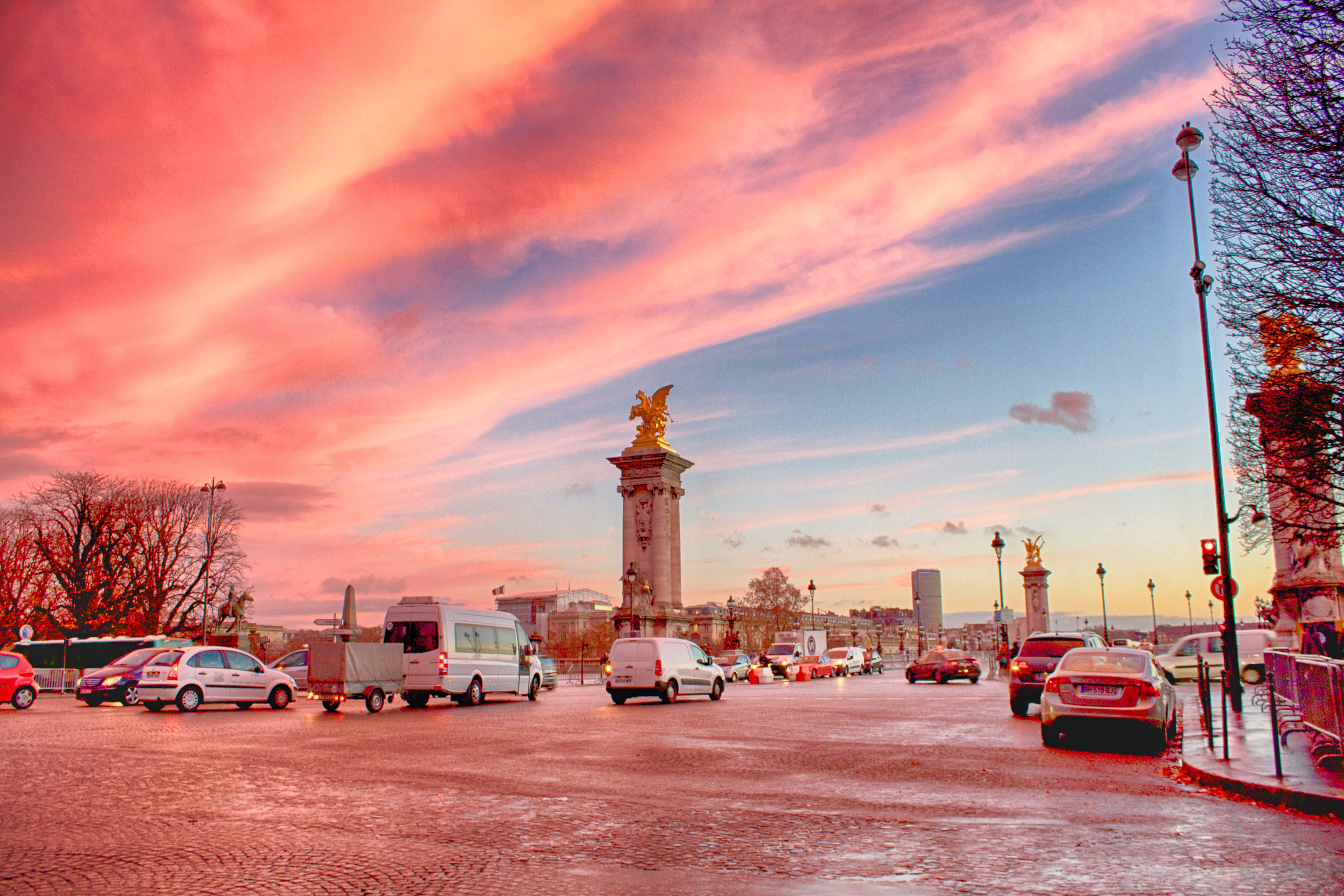 A pink cloud in Paris, France.